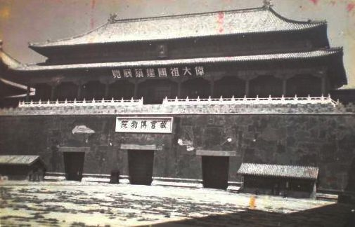 Beijing - Forbidden City(view NW) - Meridian Gate